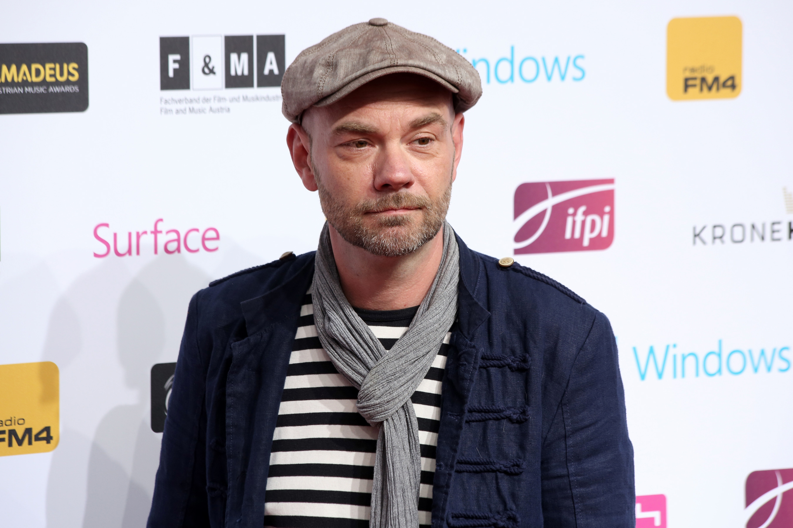 Herr Tischbein at the Amadeus Austrian Music Award 2014 at Volkstheater in Vienna